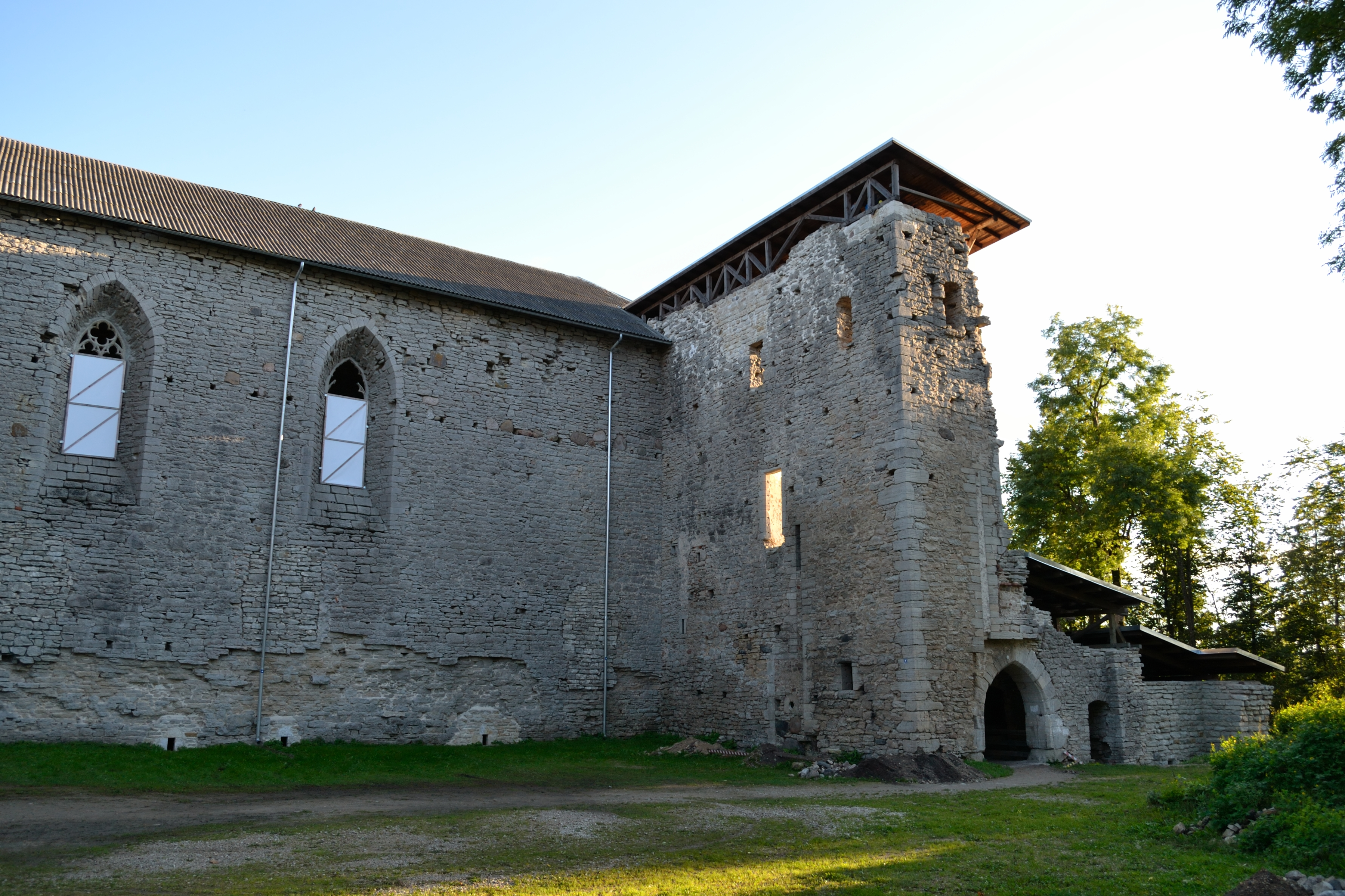 Padise Abbey ruins, 13.-16. century